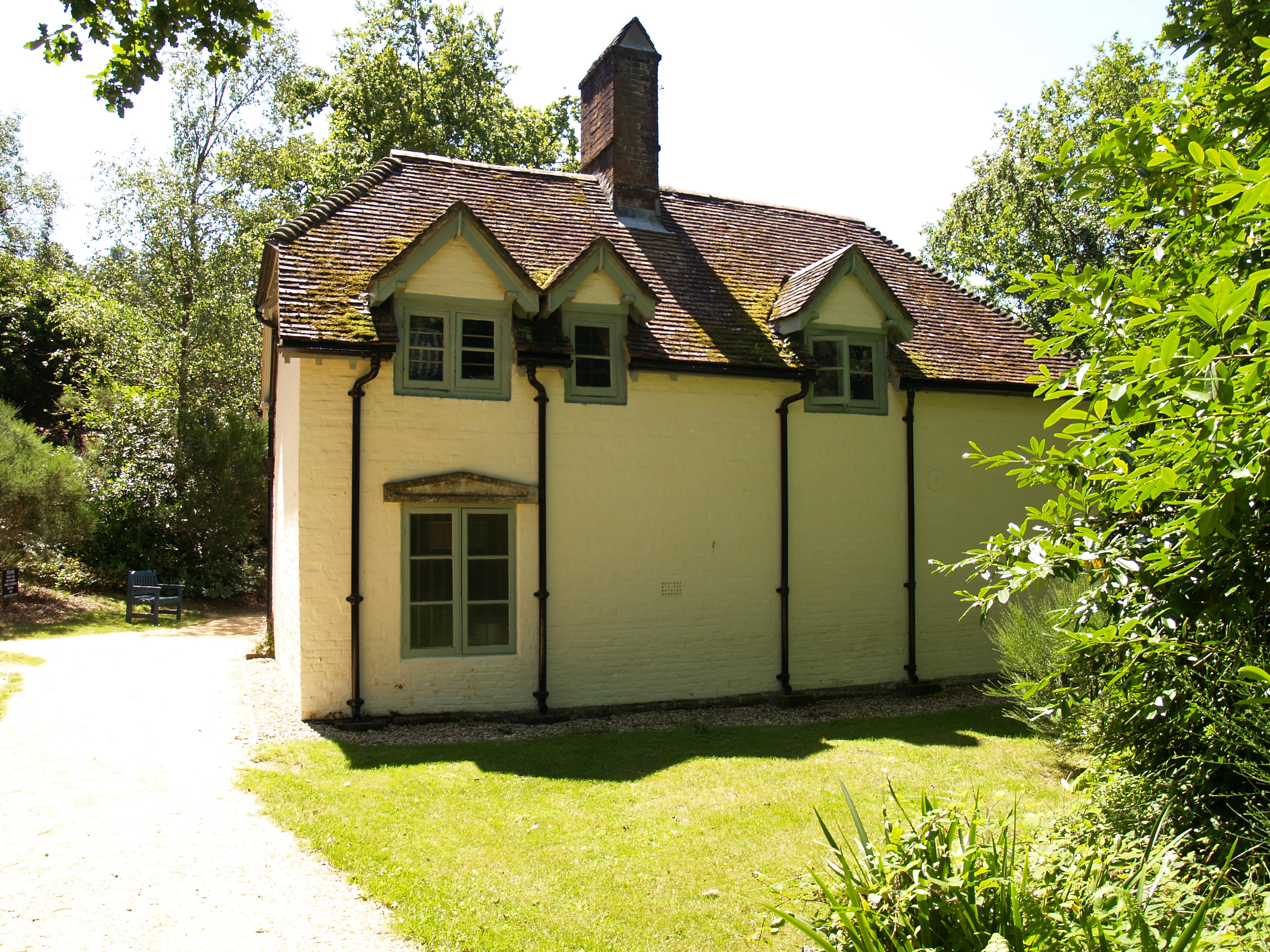 Own Work 2007 Clouds Hill Dorset